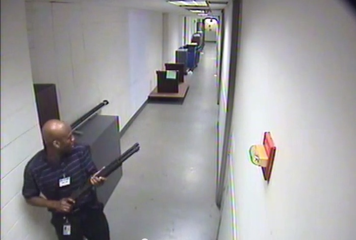 CCTV footage of Aaron Alexis in building 197 holding a Remington 870 shotgun.